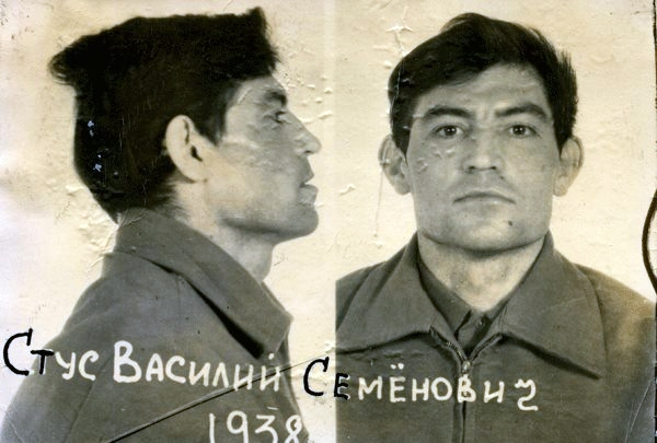 Vasyl Stus (1938-1985) Ukr. Васи́ль Семе́нович Стус - Ukrainian poet and publicist, one of the most active members of Ukrainian dissident movement. For his political convictions, his works were banned by the Soviet regime and he spent 23 years (about a half of his life) in detention.